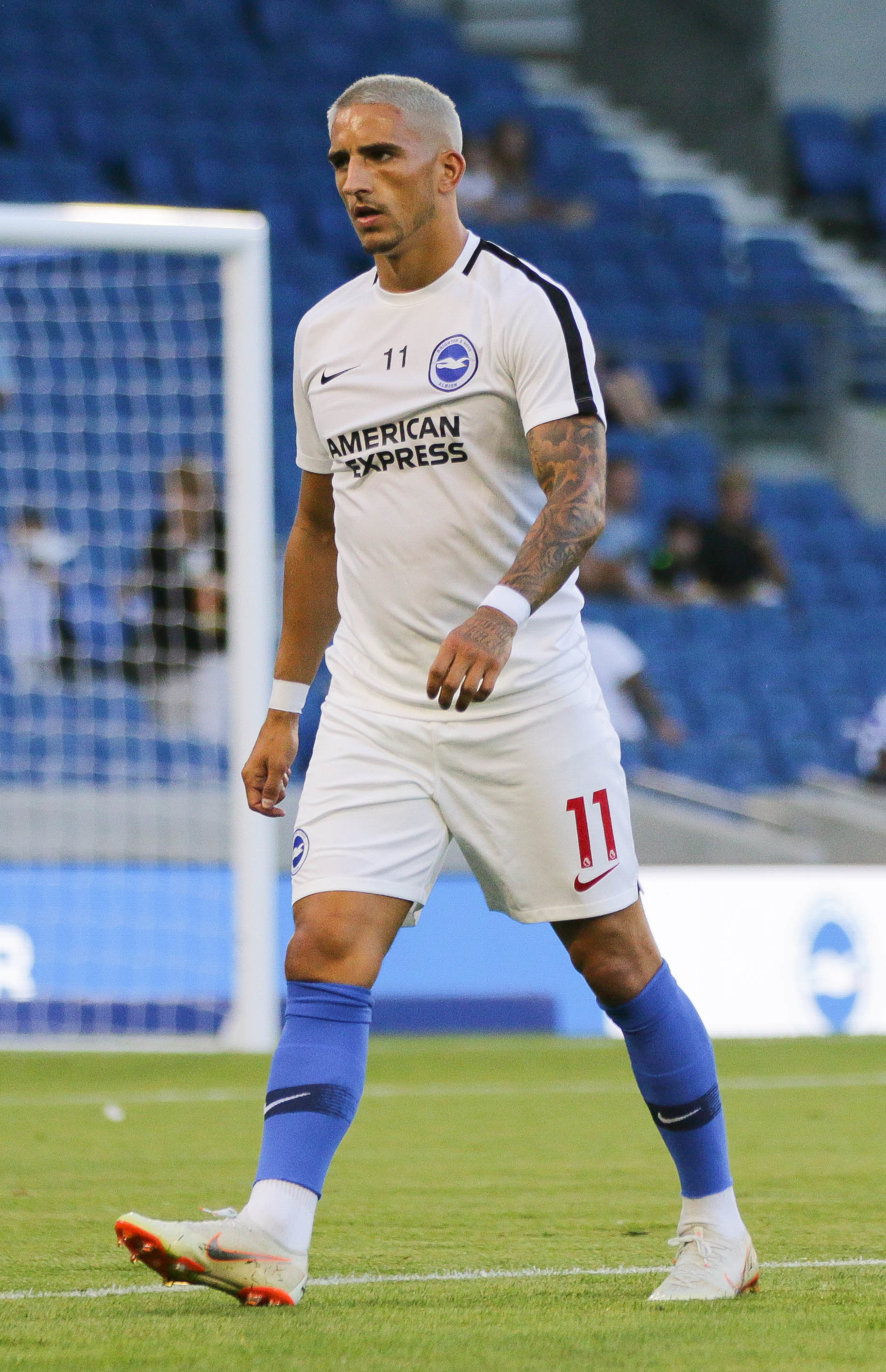 BHA v FC Nantes pre season 03 08 2018-219.jpg